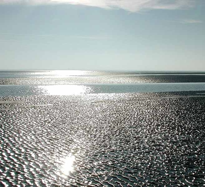 Mud flats against the sun.